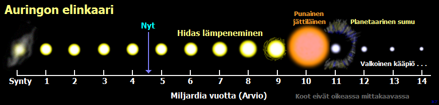 Life-cycle of the Sun.